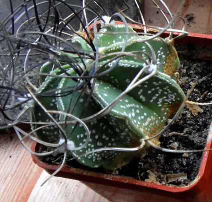 Cacti